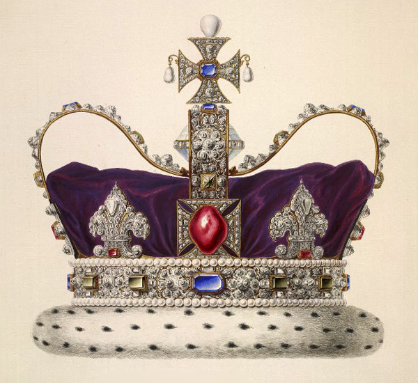 Illustration of George I's Imperial State Crown